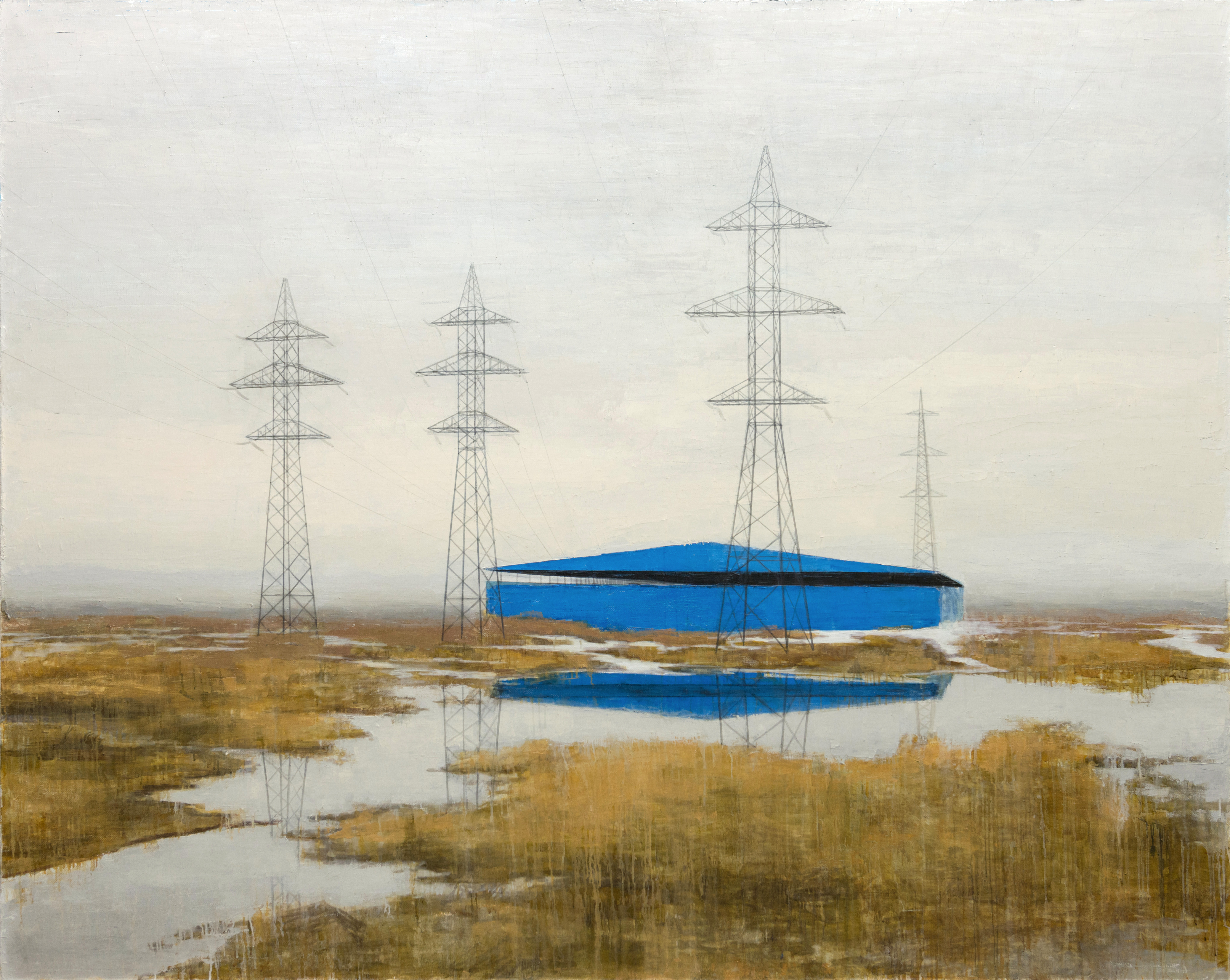 oil on canvas, 200х250